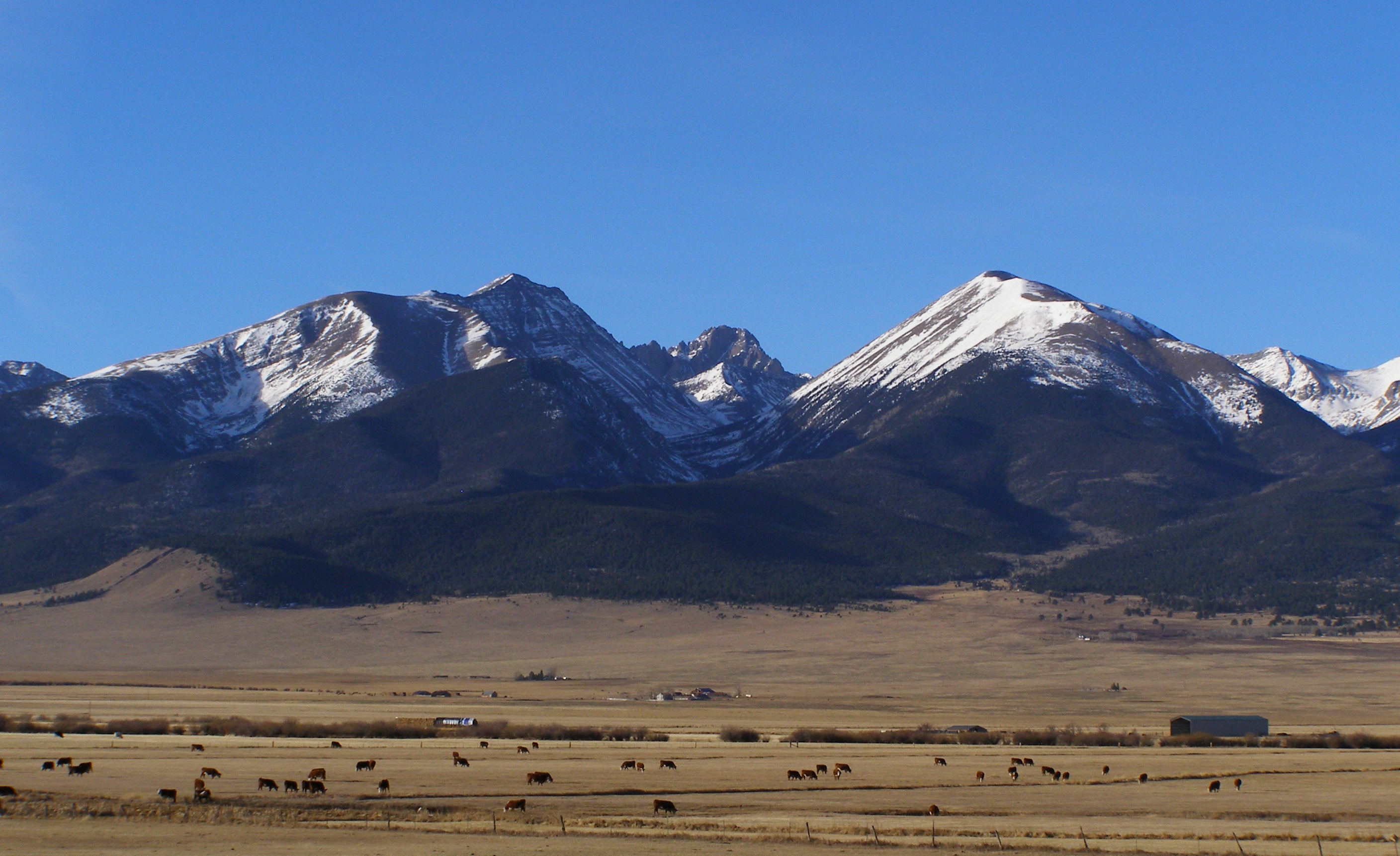 Eastern Sangre de Cristo 14ers, taken from about five miles south of the town of Westcliffe, along C-69. There are some very special guests in the lower foreground.